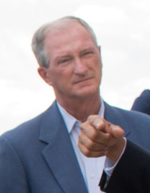 President Barack Obama talks with state and local officials upon his arrival at Buckley Air Force Base in Aurora, Colo., July 22, 2012. Pictured, from left, are: Rep. Ed Perlmutter, D-Colo.; Sen. Michael Bennet, D-Colo.; Sen. Mark Udall, D-Colo.; Colorado Gov. John Hickenlooper; Police Chief Dan Oates; and Aurora Mayor Steve Hogan. (Official White House Photo by Pete Souza)